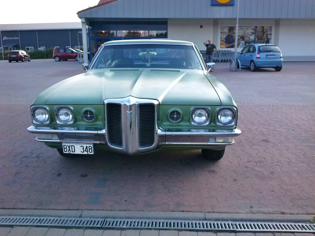 1970 Pontiac Catalina Hardtop Coupe with Ventura option. BXD 348 (S) Photo taken by my wife